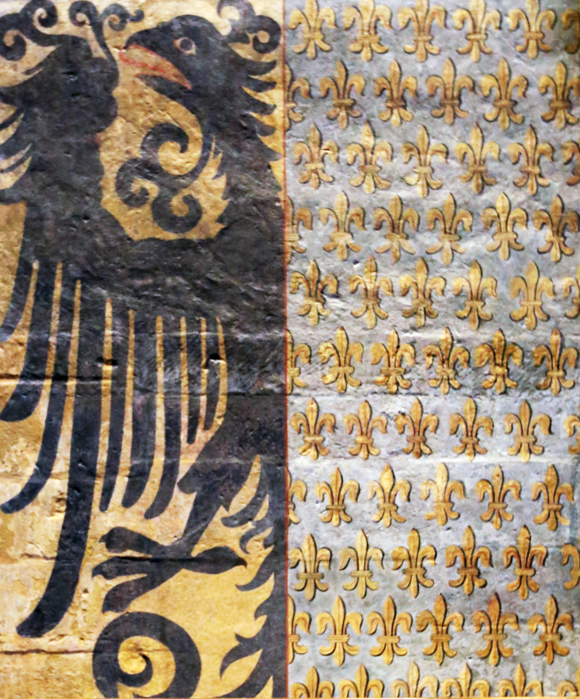 Coats of arms, gothic period of St. Mary's Convent in Aachenl, Germany.